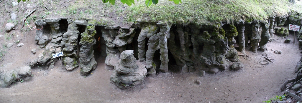 from Polish wiki by [1]